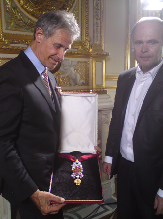 Presentation of the recreated Golden Fleece of King Louis XV of France, at the former Royal Storehouse in Paris (2010). Recreated 218 years after the original piece was stolen and destroyed in the French Revolution. Original formerly of the Crown jewels of France. With the recreated Blue Diamond of the French Crown set center-bottom (later recut as the Hope Diamond).